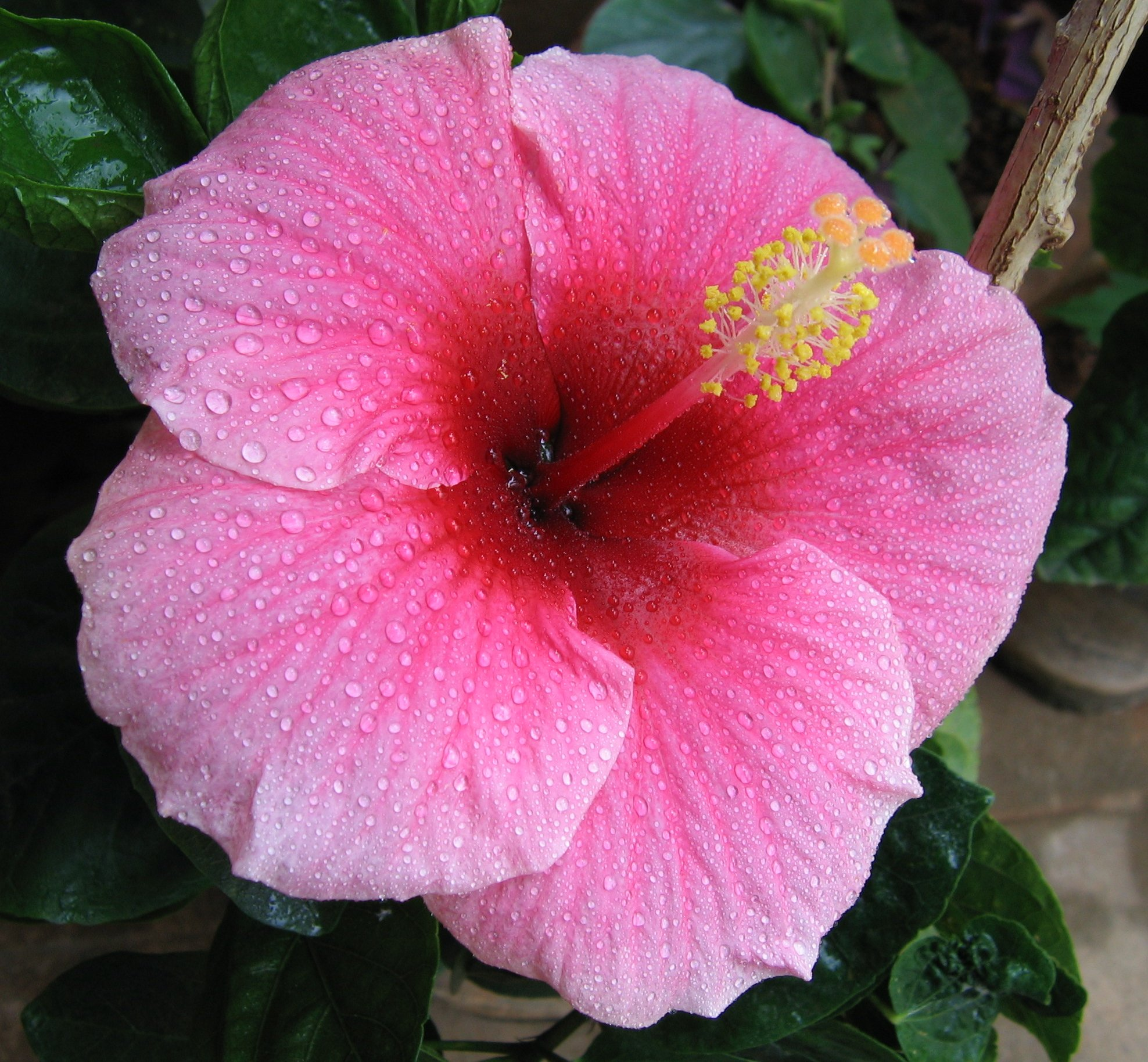 Photo of Hibiscus rosa-sinensis, Camera: canon powershot a95.